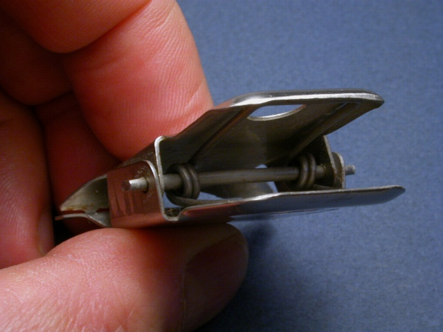 Tweezer to handle photographs